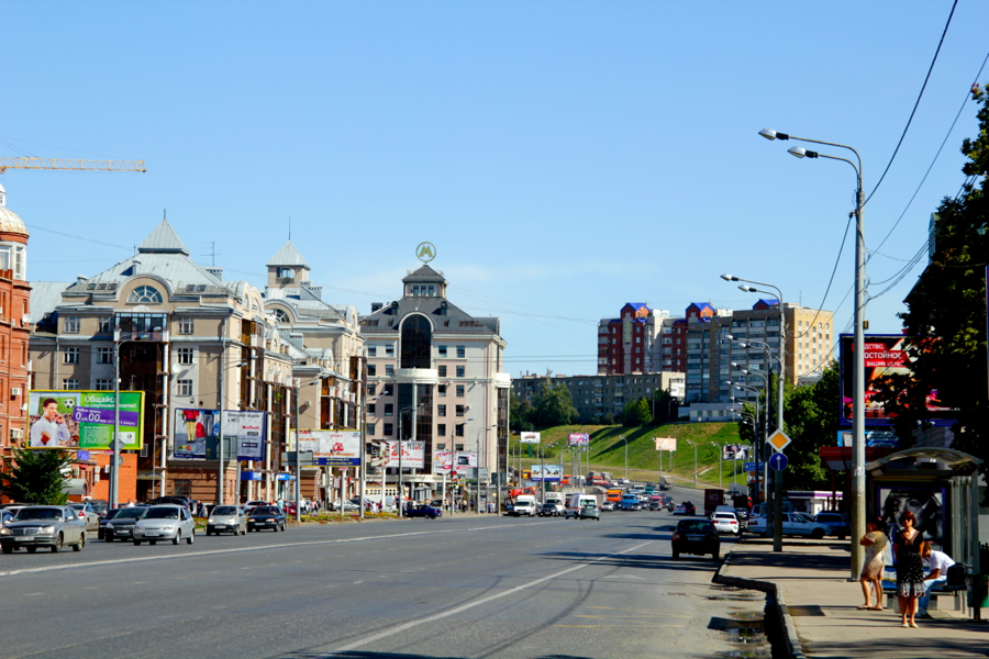 Kazan, Esperanto street.